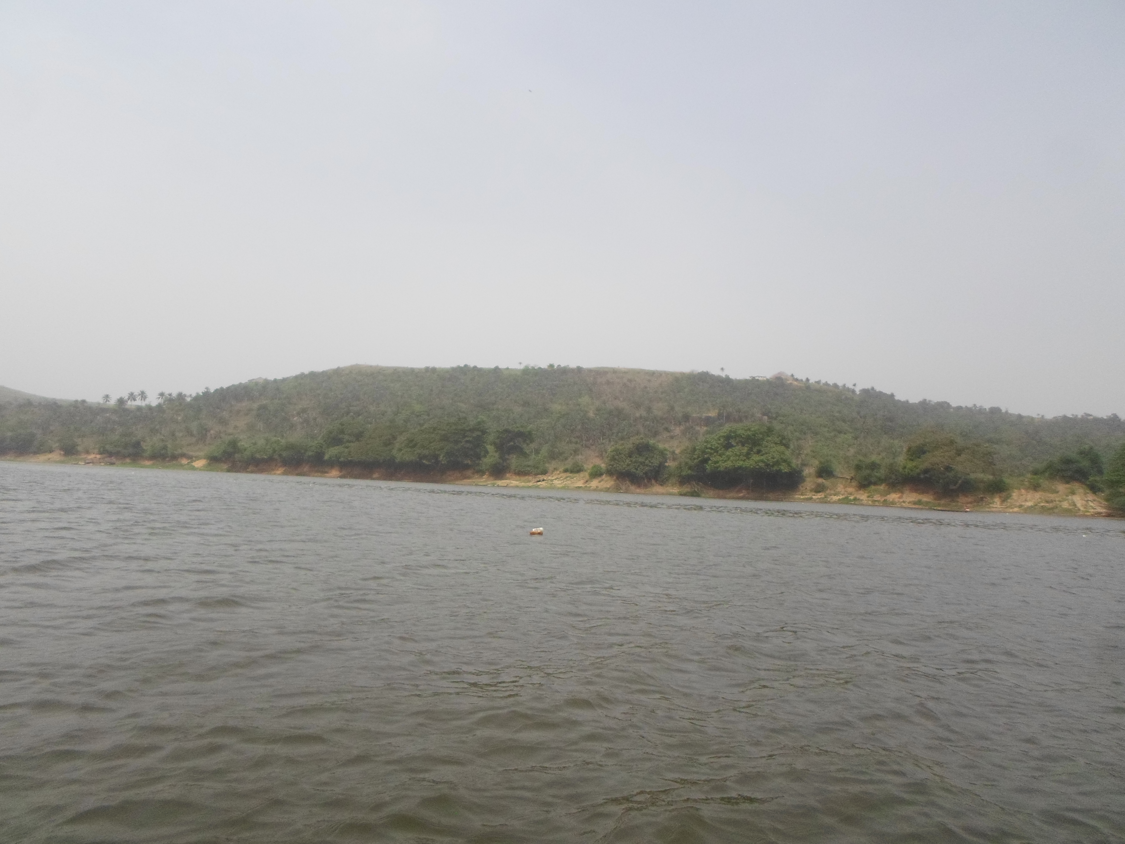 This is an image with the theme "Play" from: Nigeria